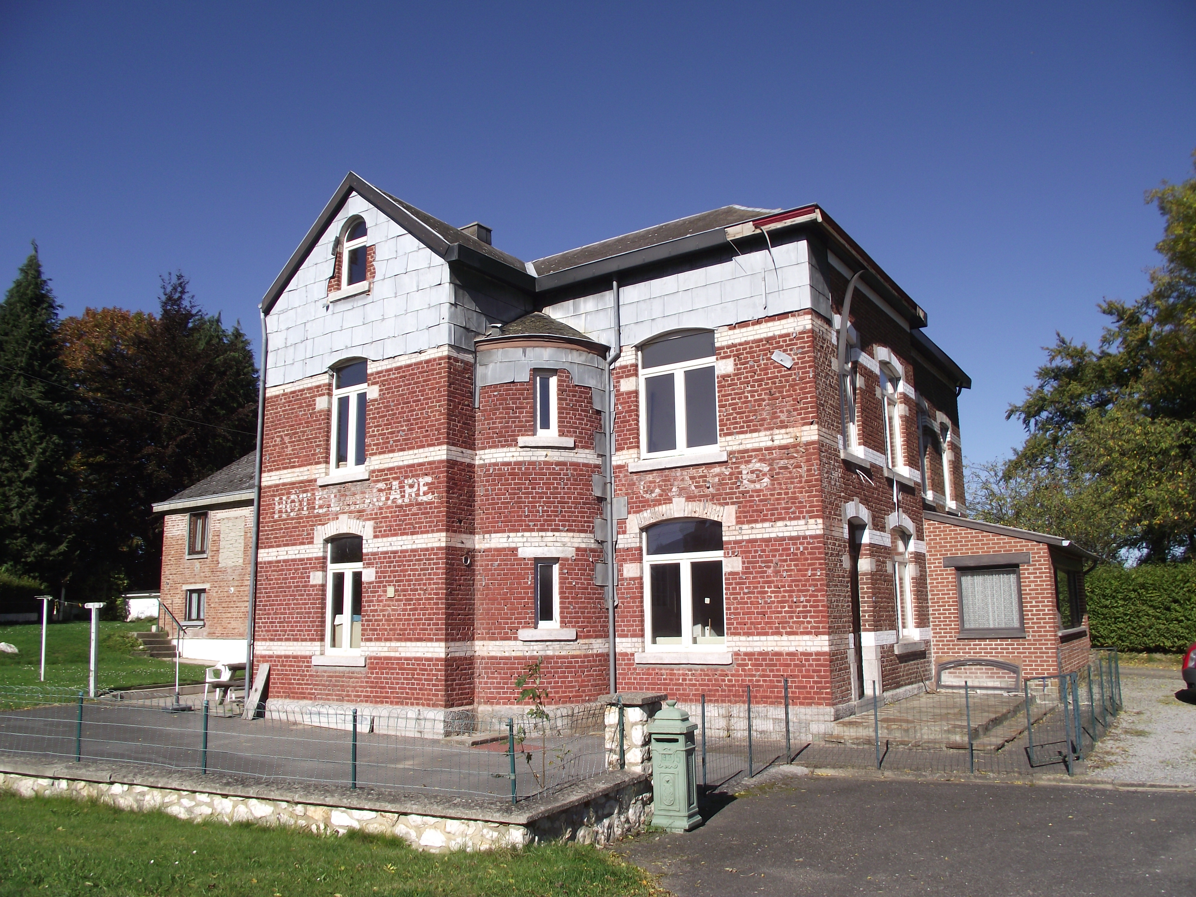 Champlon vicinal railway station and hotel.